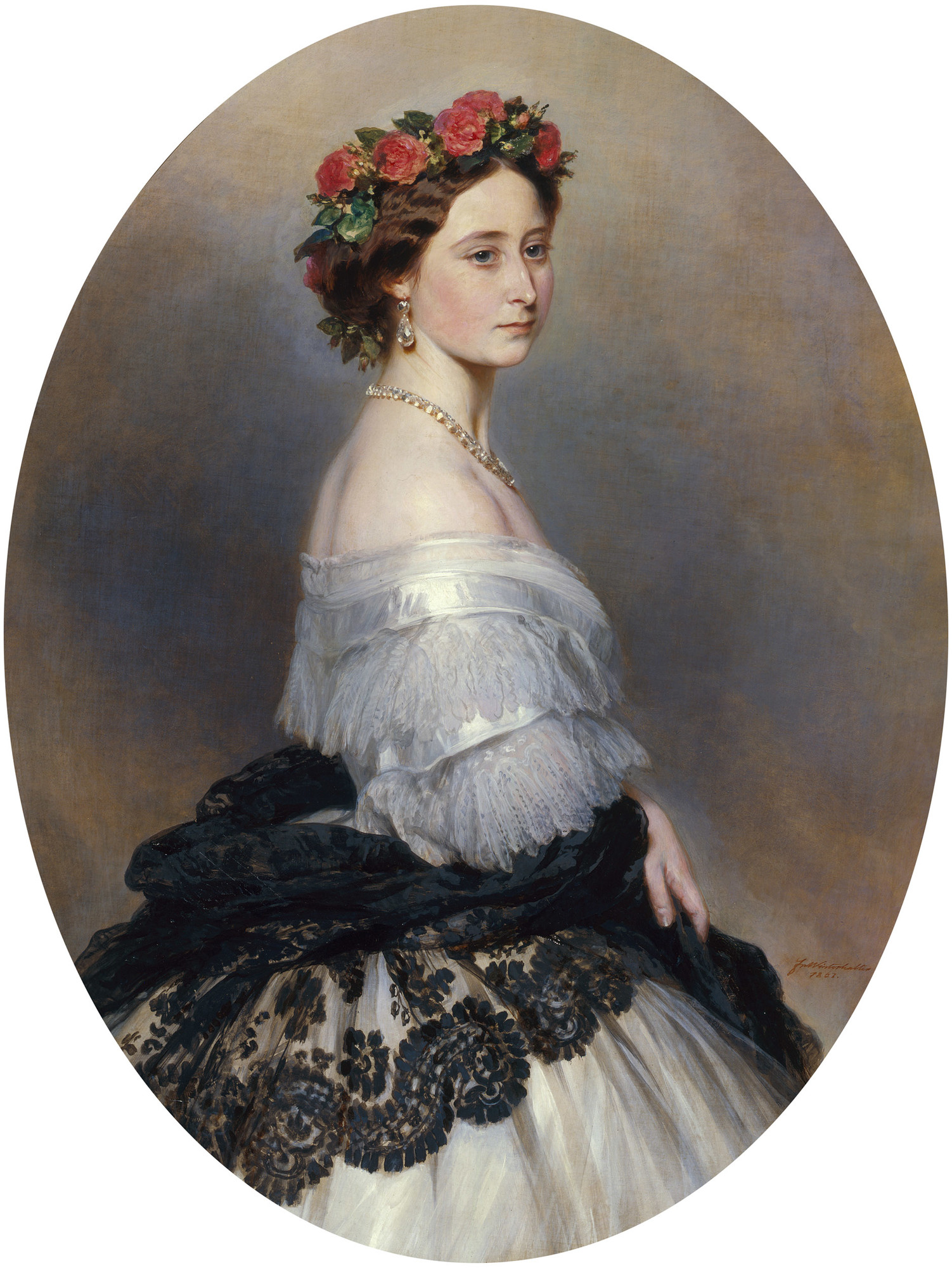 Portrait of Alice of the United Kingdom Caption from the museum's website Winterhalter was born in the Black Forest where he was encouraged to draw at school. In 1818 he went to Freiburg to study under Karl Ludwig Schüler and then moved to Munich in 1823, where he attended the Academy and studied under Josef Stieler, a fashionable portrait painter. Winterhalter was first brought to the attention of Queen Victoria by the Queen of the Belgians and subsequently painted numerous portraits at the English court from 1842 till his death. Princess Alice (1843-78) is wearing a white ball dress and a black shawl. Originally she held a wreath of flowers in her hand, but this was changed as the painting progressed. Franz Xaver Winterhalter began the painting on 4 June 1861 and on 13 June Queen Victoria wrote in her Journal that he had 'finished Alice's beautiful picture, which is so like & fine'. Alice was the third child and second daughter of Queen Victoria and Prince Albert. Known for her sweet nature, she often took on the role of peacekeeper in the royal household. The marriage of her older sister, Princess Victoria, in 1858 left Alice as the eldest daughter at home, and the Queen and Prince Albert both turned to her for company. In a popular edition of Alice's letters to the Queen, published in 1885, Princess Helena, her sister, described her as 'loving Daughter and Sister, the devoted Wife and Mother, and a perfect, true Woman'. In 1862 she married Louis IV, Grand Duke of Hesse.